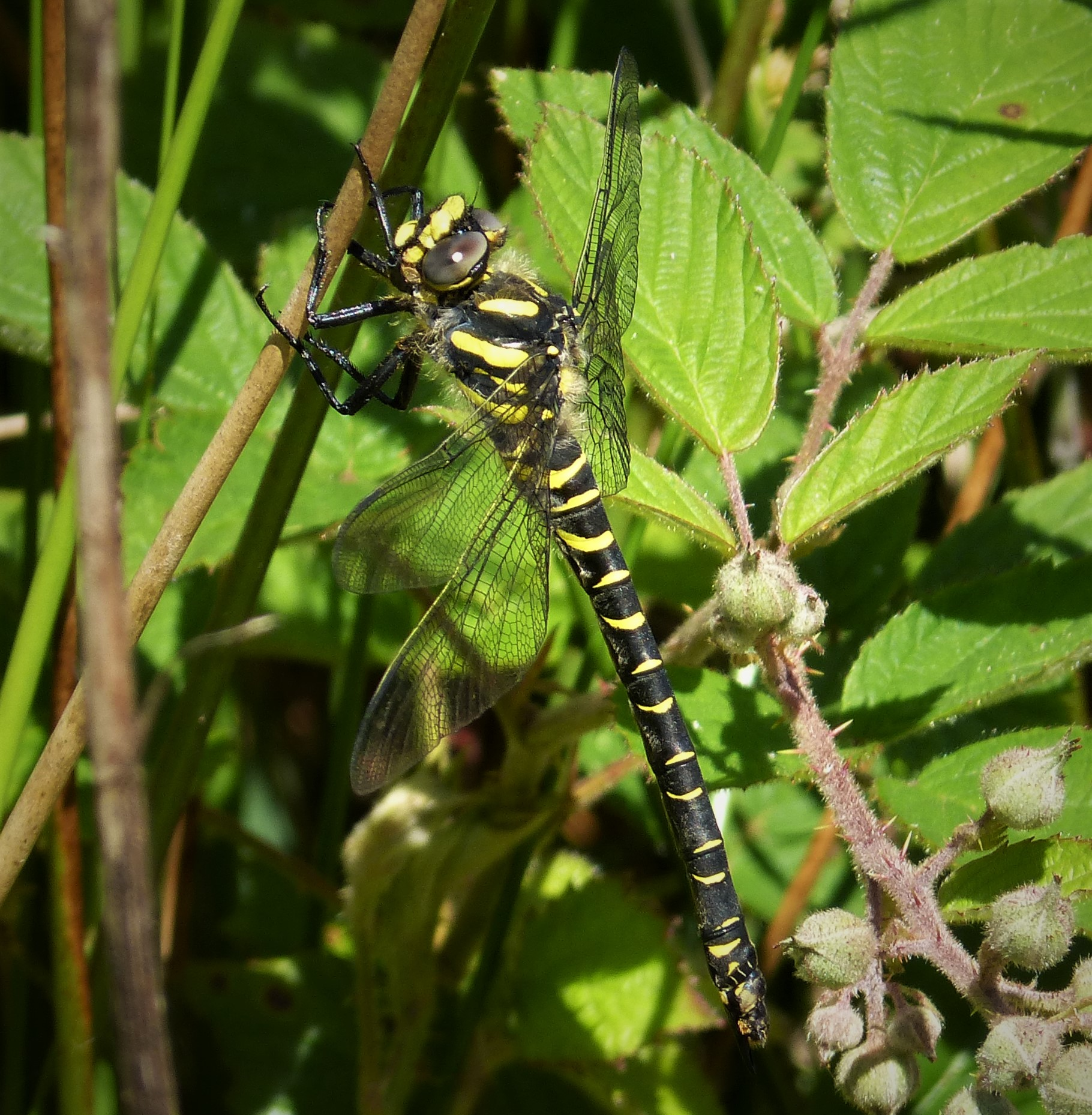 Whiteland Bay, Arran. NS024251